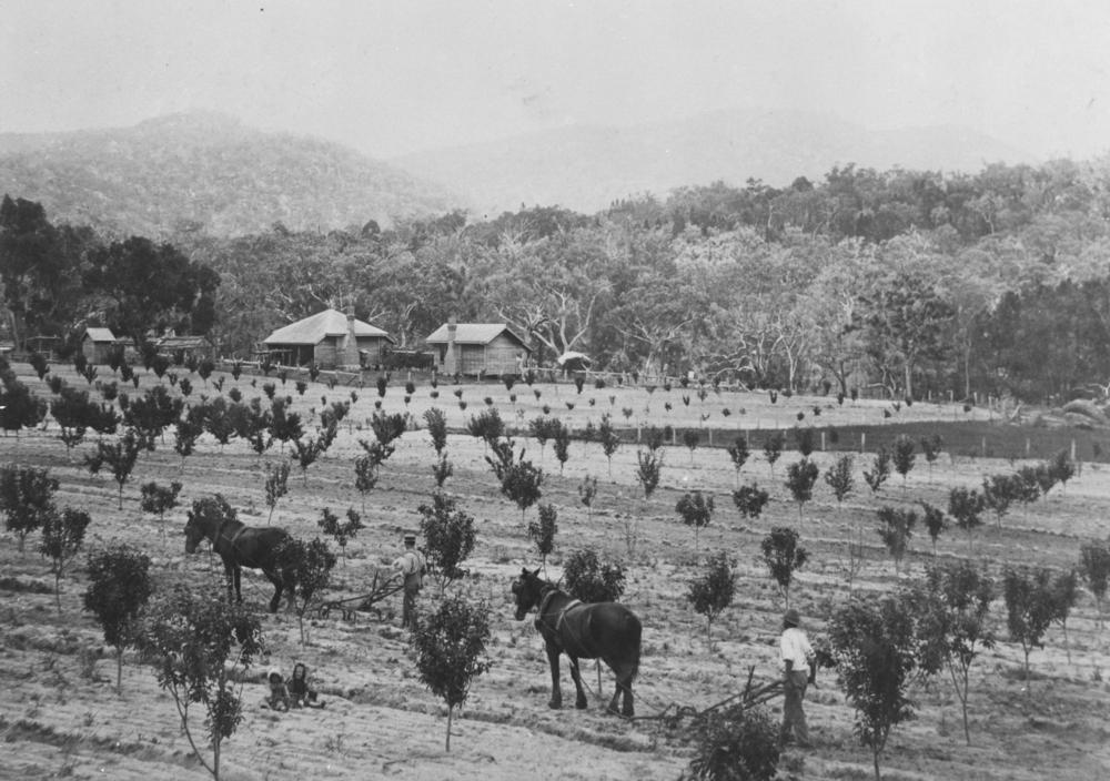 Ploughing the fields in a cherry orchard at Ballandean, 1897